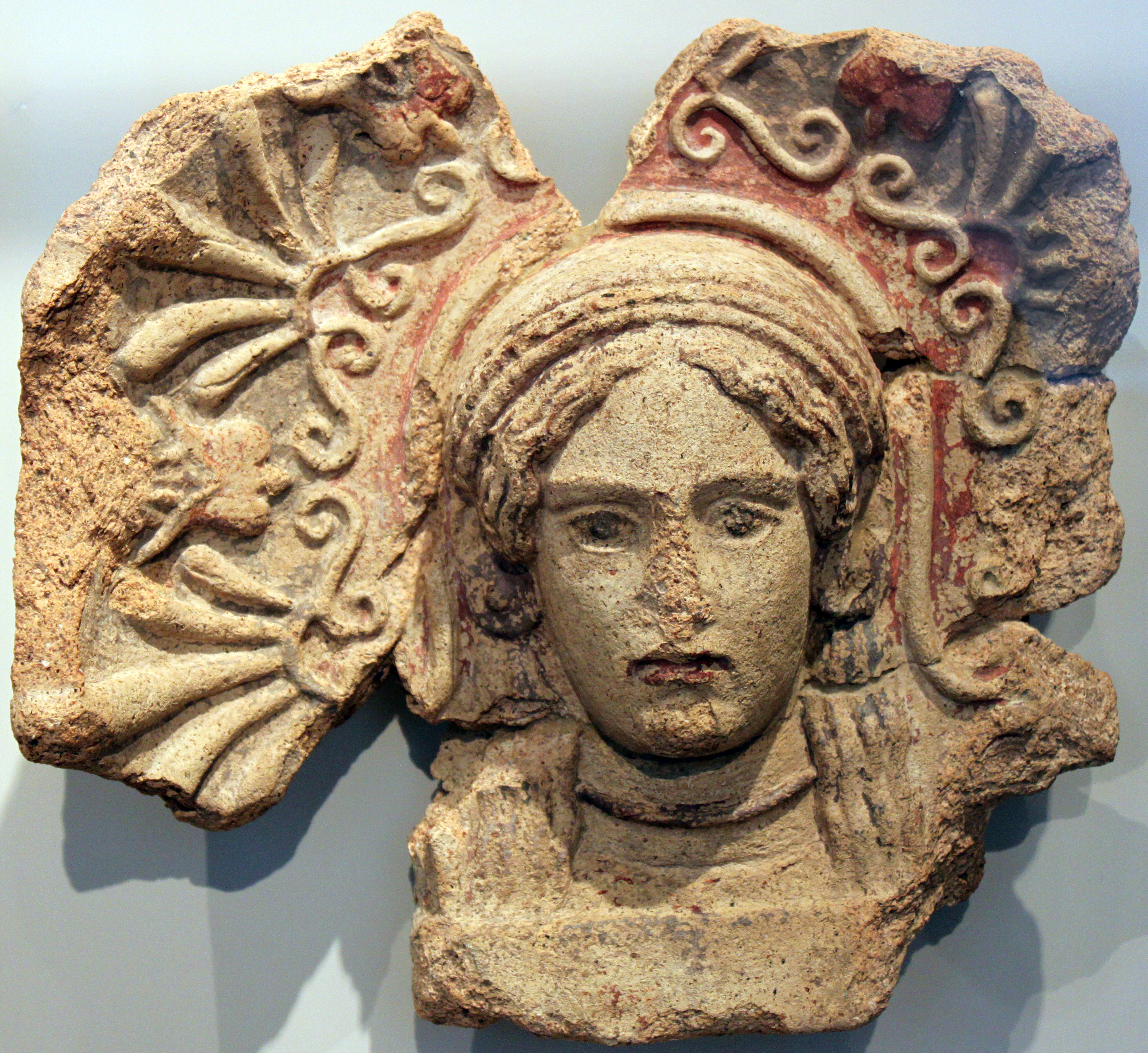 Woman's Head Antefix with Nimbus; Orvieto (Italy), 425-400 BC Altes Museum Native nameAltes MuseumLocationBerlinCoordinates52° 31′ 10″ N, 13° 23′ 54″ E Established1828Website control VIAF: 202689698 LCCN: n83197241 GND: 4506837-9 WorldCat TC 7540